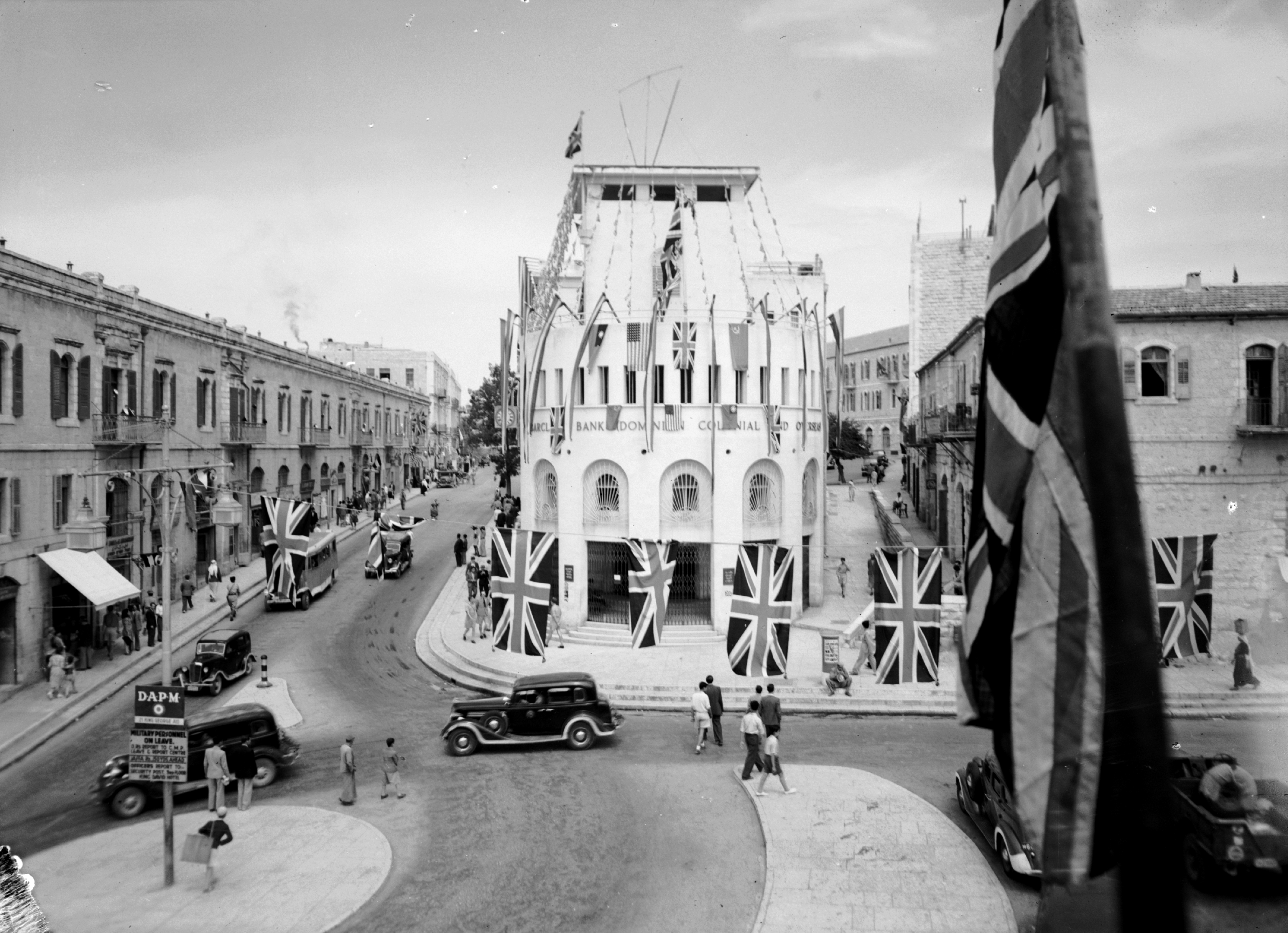 A picture of Barclay's Bank, on VE Day, in Jerusalem, Palestine. Slightly cropped from original at the Library of Congress. Victory in Europe Day (V-E Day or VE Day) was May 7 and May 8, 1945, the dates when the World War II Allies formally accepted the unconditional surrender of the armed forces of Nazi Germany and the end of Adolf Hitler's Third Reich. Victory Day (Russia)- May 9.